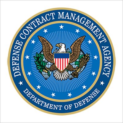 Seal of the Defense Contract Management Agency